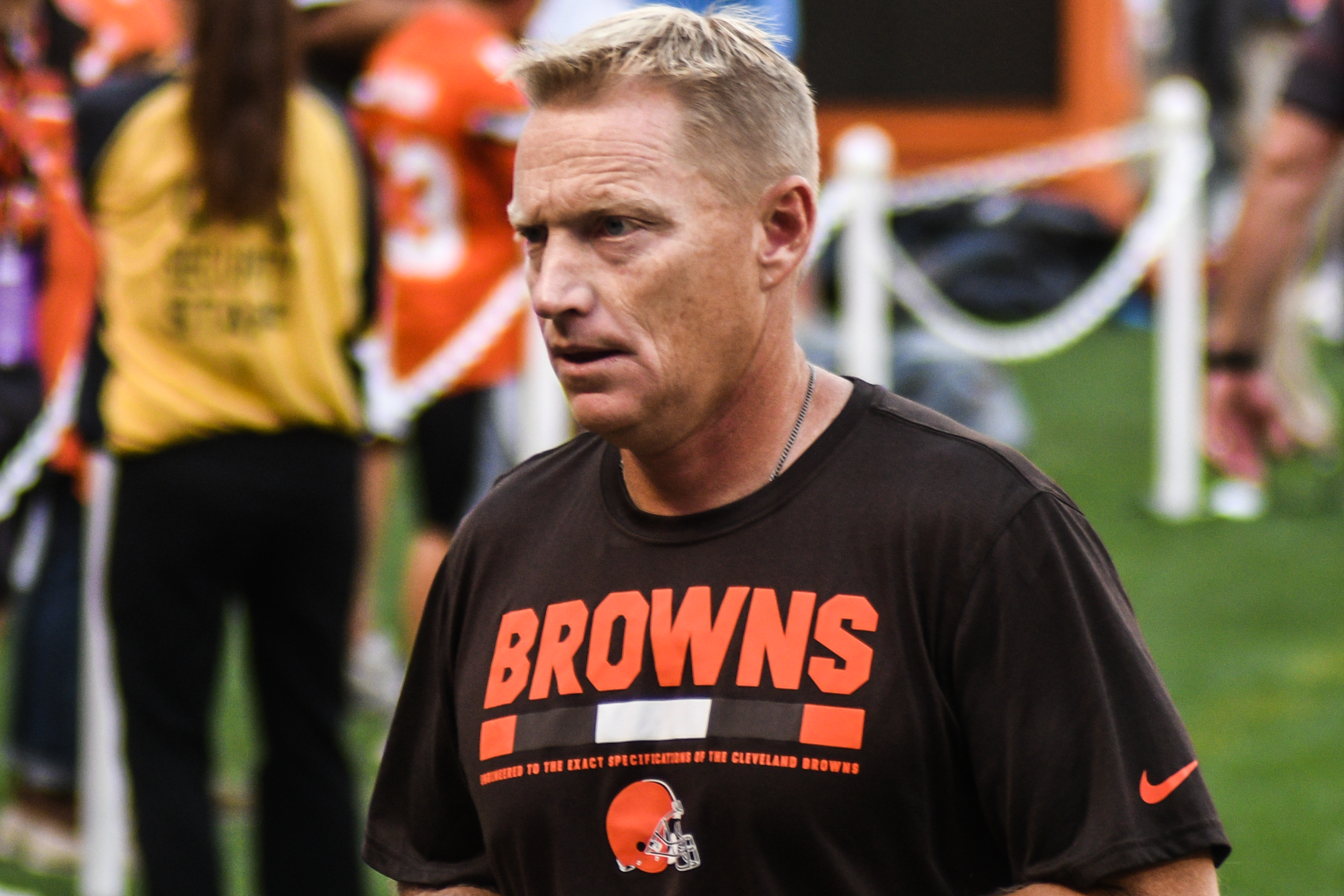 Chris Tabor